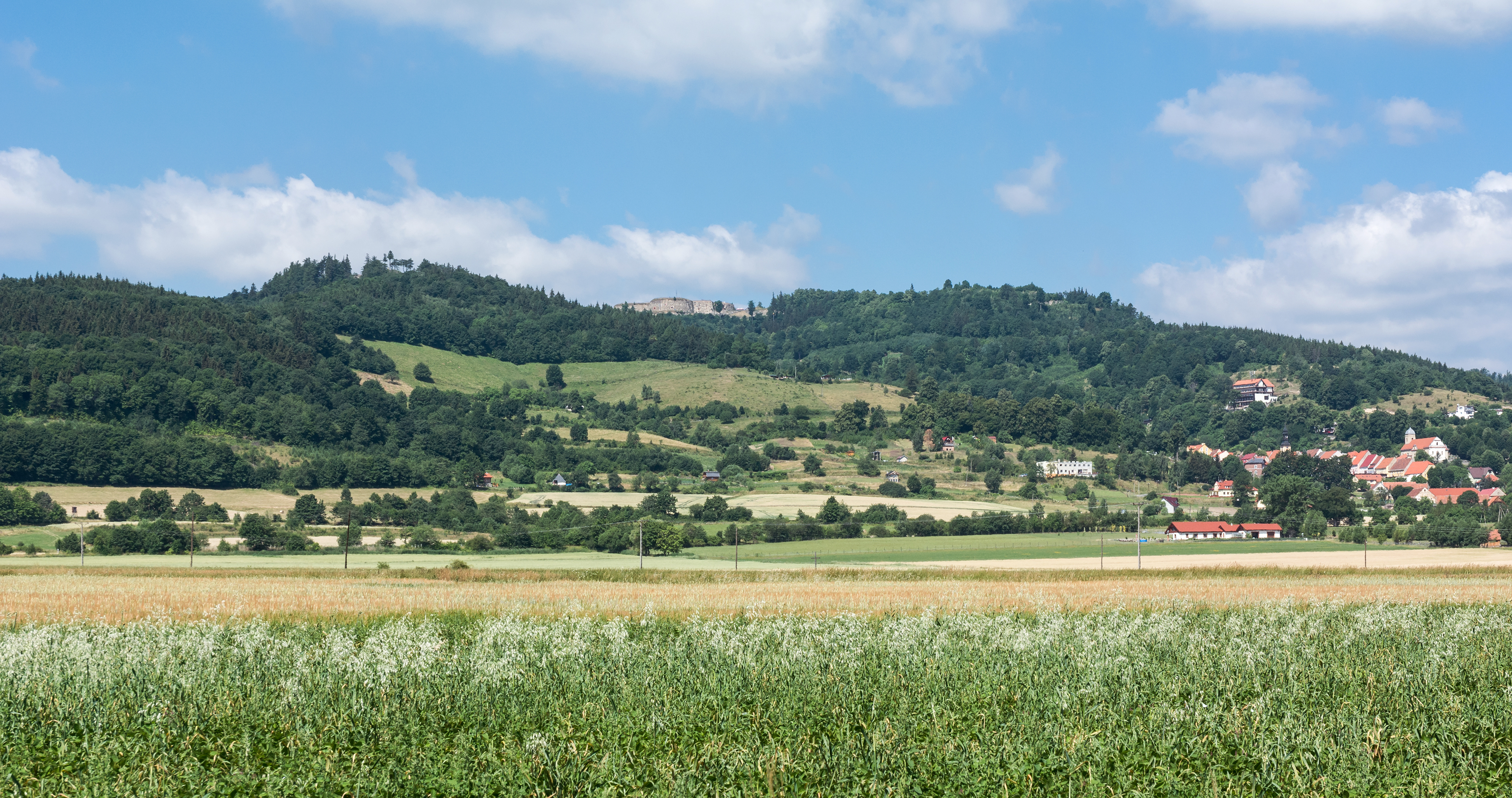 Łysa Góra i Ostróg, Bardzkie Mountains, Sudetes